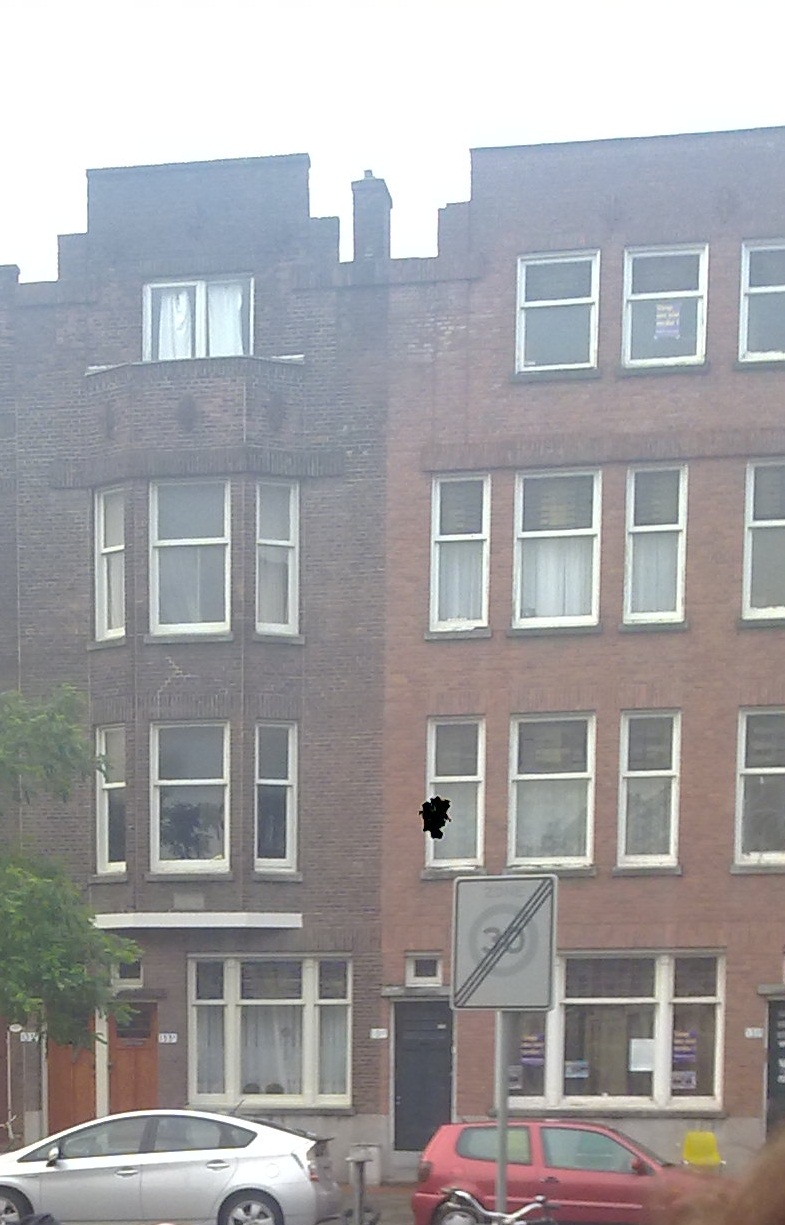 the black blob in the middle is the result of damage to the photo sensitive chip in the camera